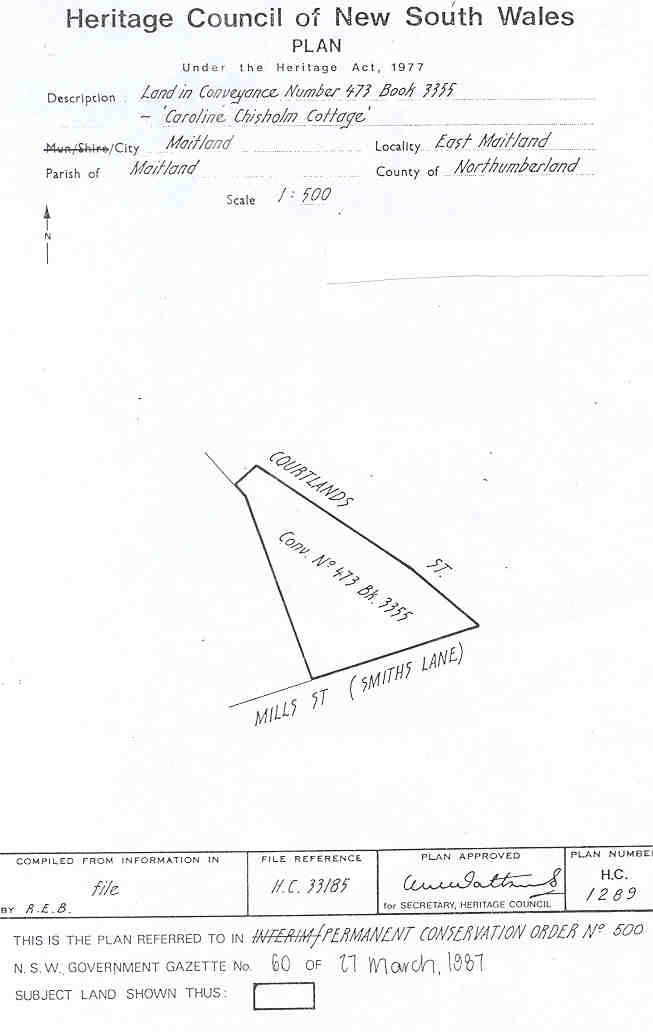 Caroline Chisholm Cottage: PCO Plan Number 500